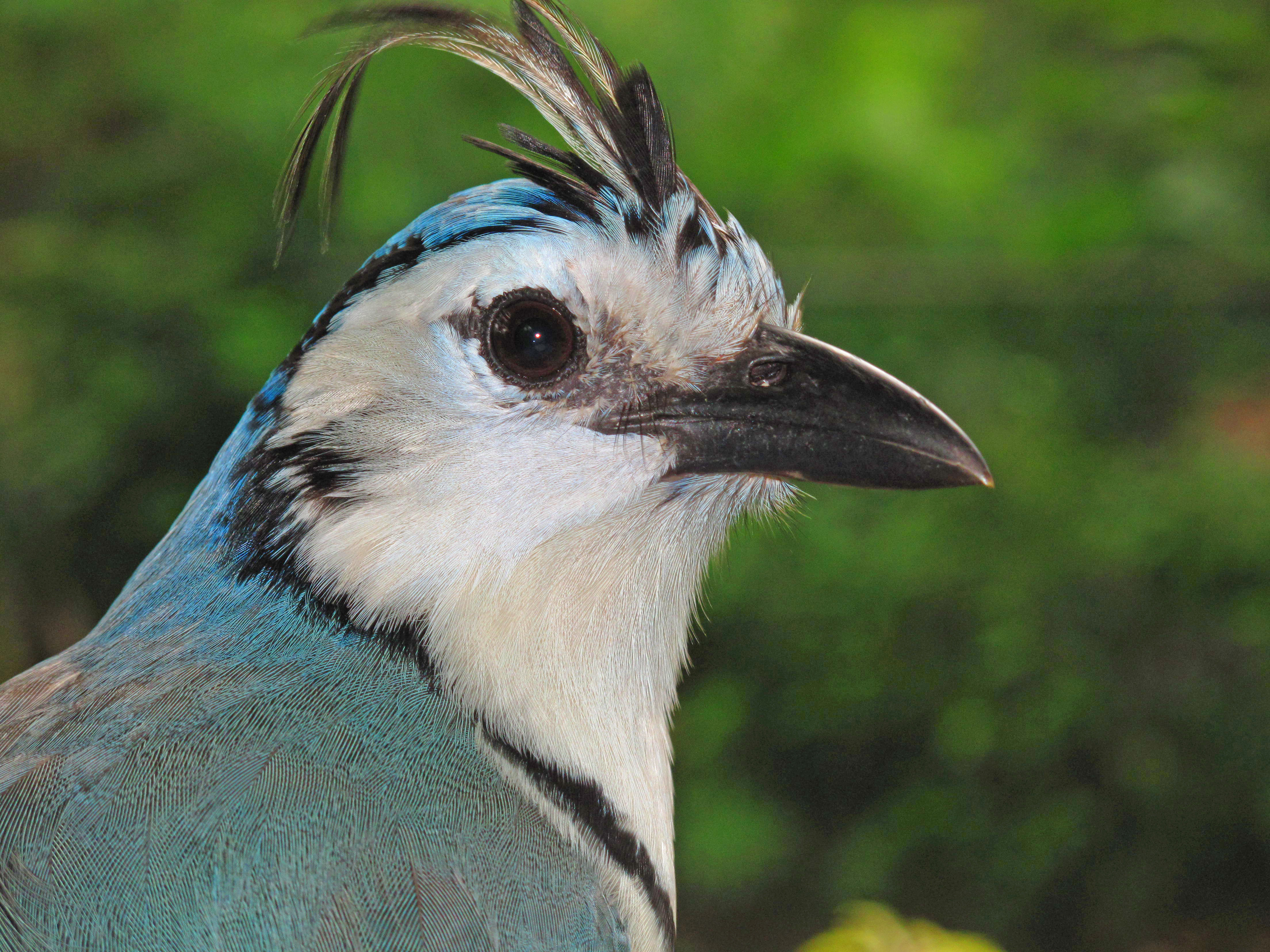 White-throated Magpie-Jay in Costa Rica.